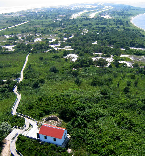 Fire Island, New York, US, View of western Fire Island from lighthouse